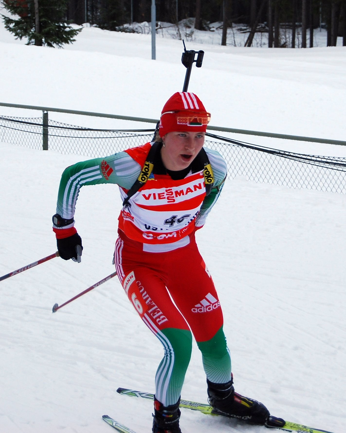 Belarusian biathlete Darya Domracheva during the World Championships in Östersund 2008.